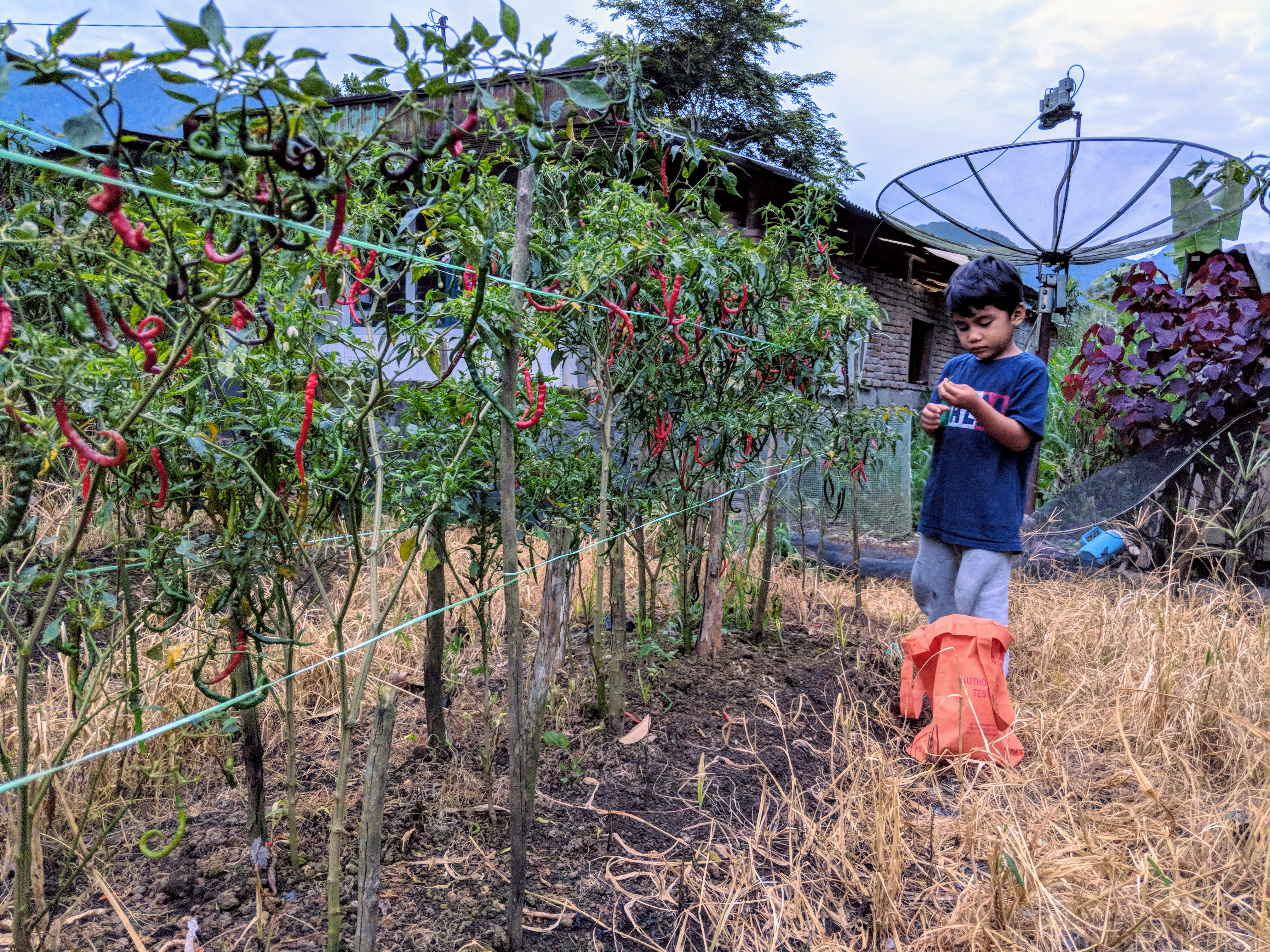 Picking chili peppers from a home garden (pekarangan) in Agam. West Sumatra, Indonesia